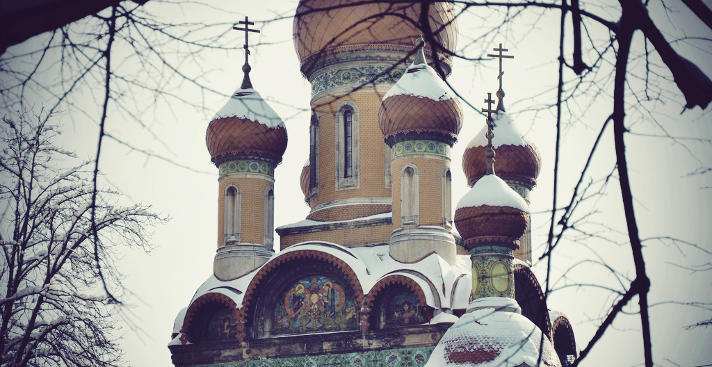 St. Nicholas Russian Church — in central Bucharest, Romania. Built in 1909 by the Tzar as a Russian Orthodox church. Later resanctified as a Romanian Orthodox church. Designed in the Russian Revival style by Imperial Russian architect Mikhail Preobrazhensky in 1909.